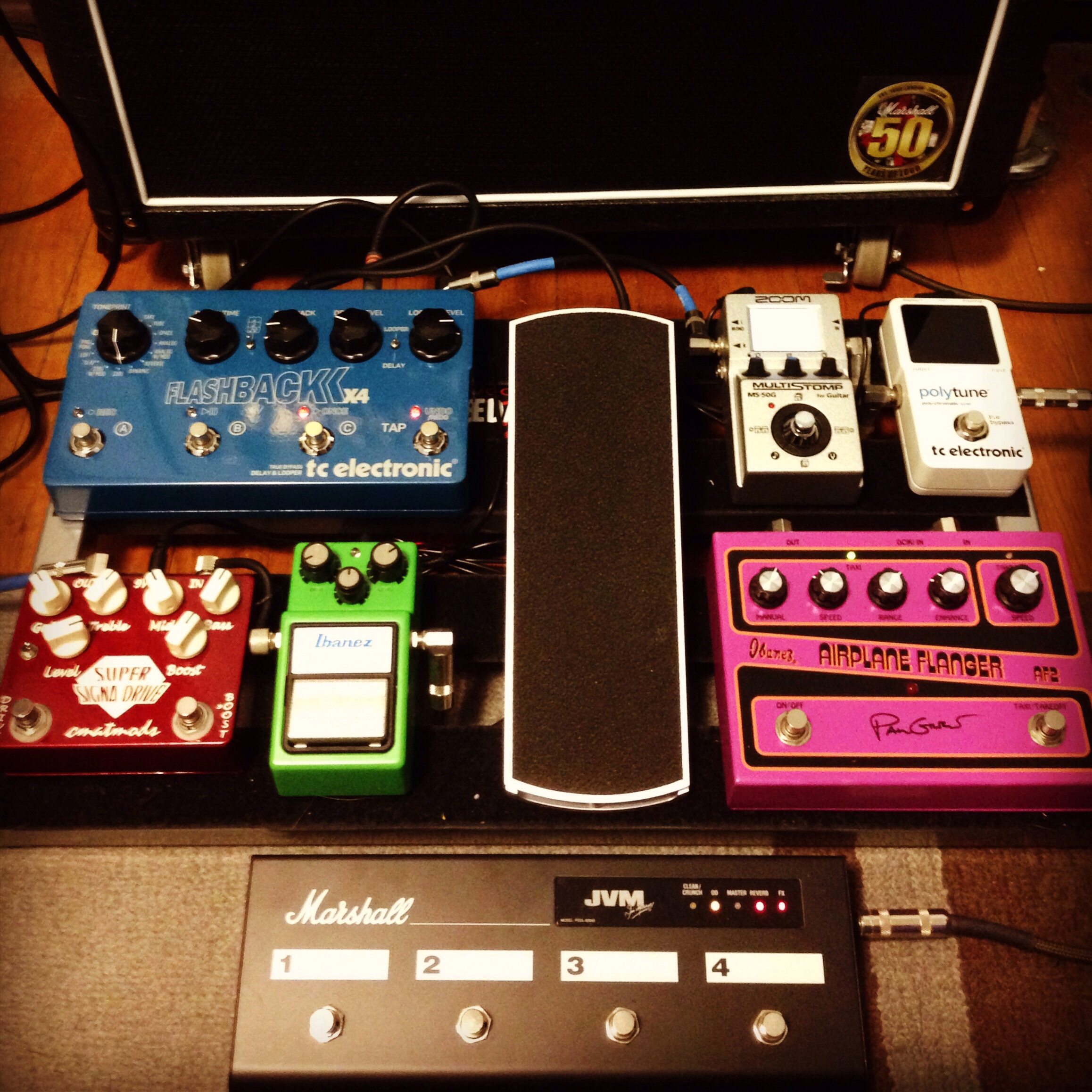 2013 Pedalboard tc electronic Flashback x4 Delay & Looper CMATMODS Super Signa Drive Ibanez TS-9 Tube Screamer volume pedal ZOOM MS-50G MultiStomp for guitar tc electronic polytune Ibanez Paul Gilbert signature AF2 Airplane Flanger Marshall JVM footswitch